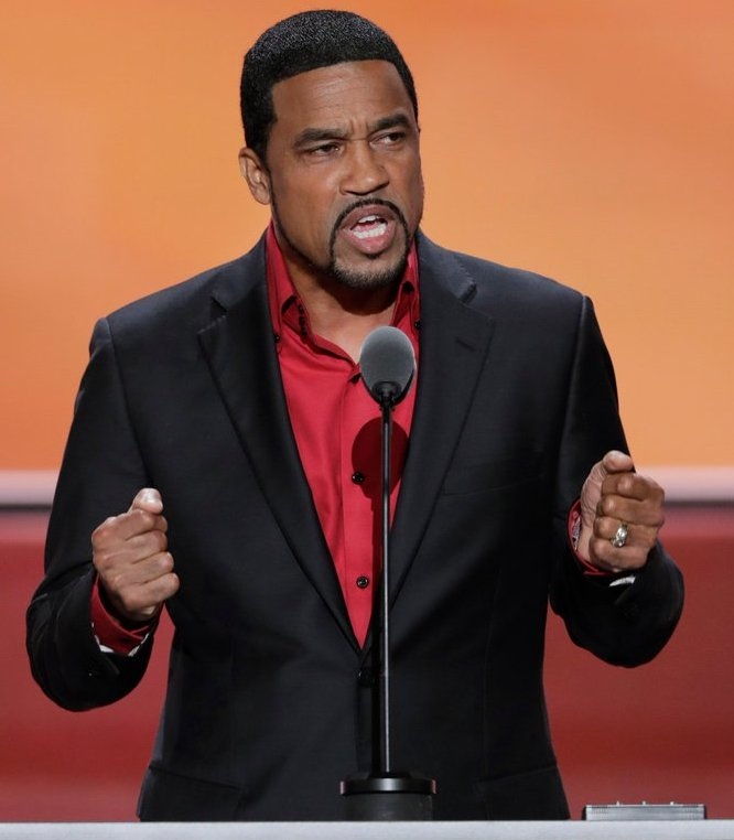 Pastor Darrell Scott speaks on the third-day of the 2016 RNC